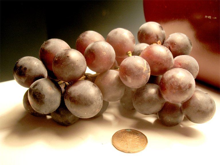 Coronation grapes. I took this picture.